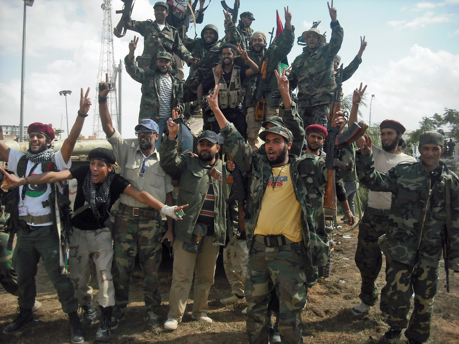 [Essam Mohamed] Fighters for Libya's interim government rejoice after winning control of the Kadhafi stronghold of Bani Walid.